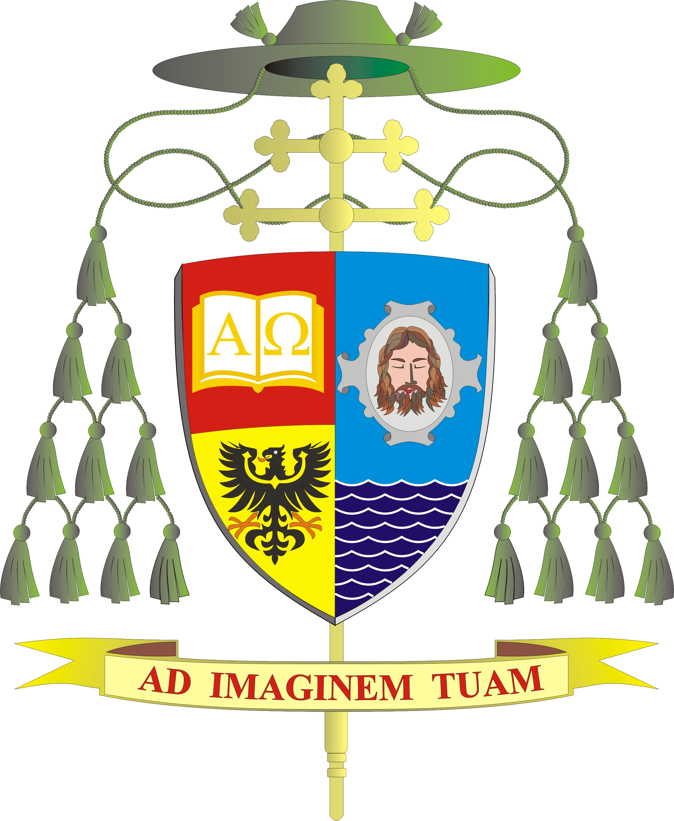 Coat of arms (shield only) of Marian Gołębiewski, bishop of Koszalin-Kołobrzeg, Poland (1996 - 2004), archbishop of Wrocław, Poland (2004 - 2013).